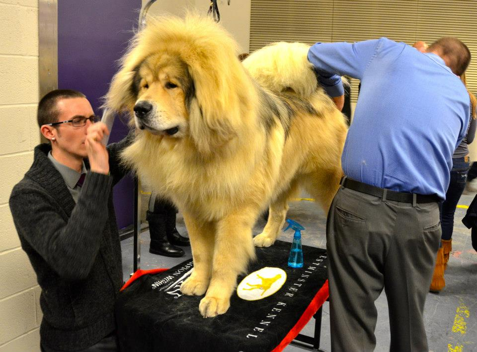 The Westminster Kennel Club 137th Annual All Breed Dog Show February 11-12, 2013 New York, NY